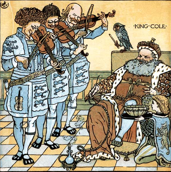 Old King Cole sits on his throne, listening to music and calling for his pipe.